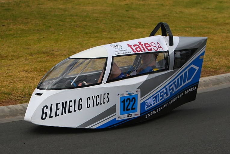 Blue Shift at the 2007 Murray Bridge 24 Hour.